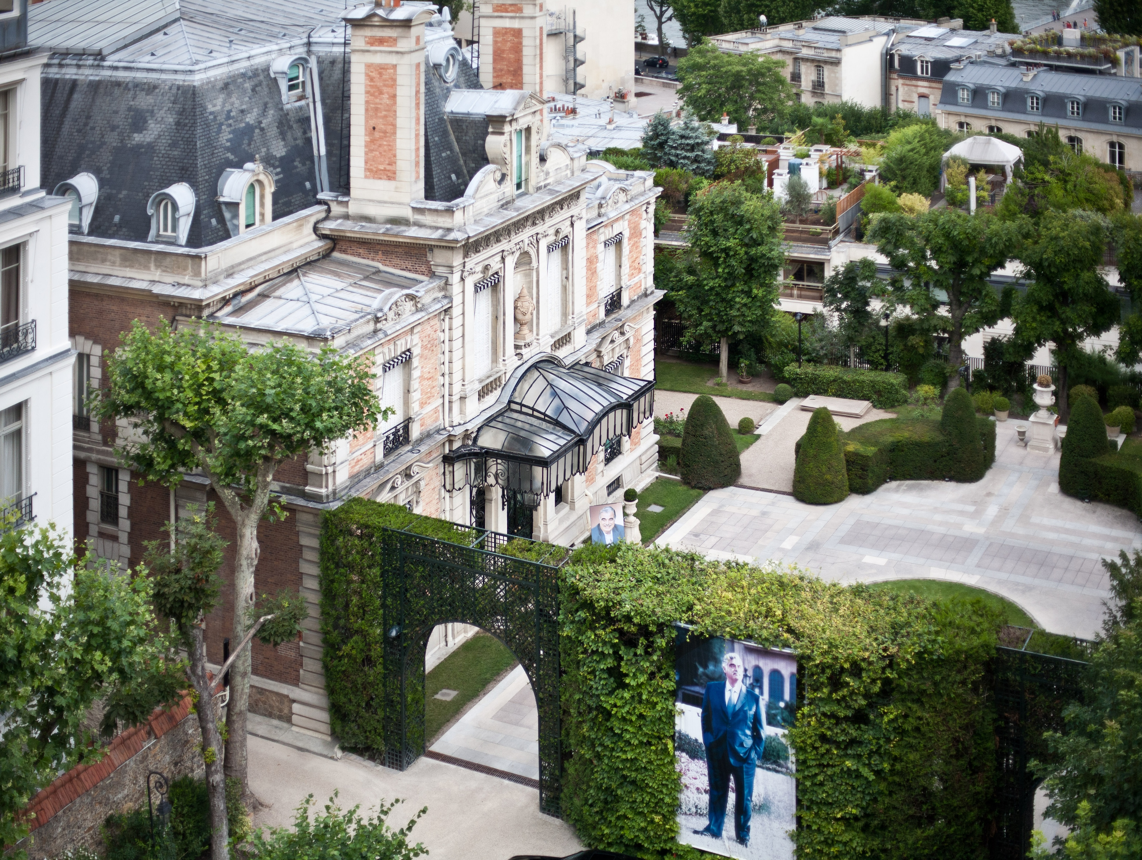 Rafic Hariri's former residence in Paris, France. Two posters with his photos. View from the terrace at Apple HQ in Paris.